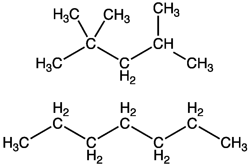 two molecules used as standards for octane ratings